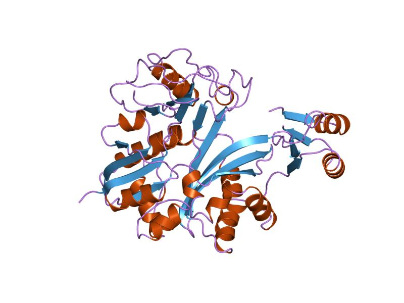 Cartoon representation of the molecular structure of protein registered with 1gso code.